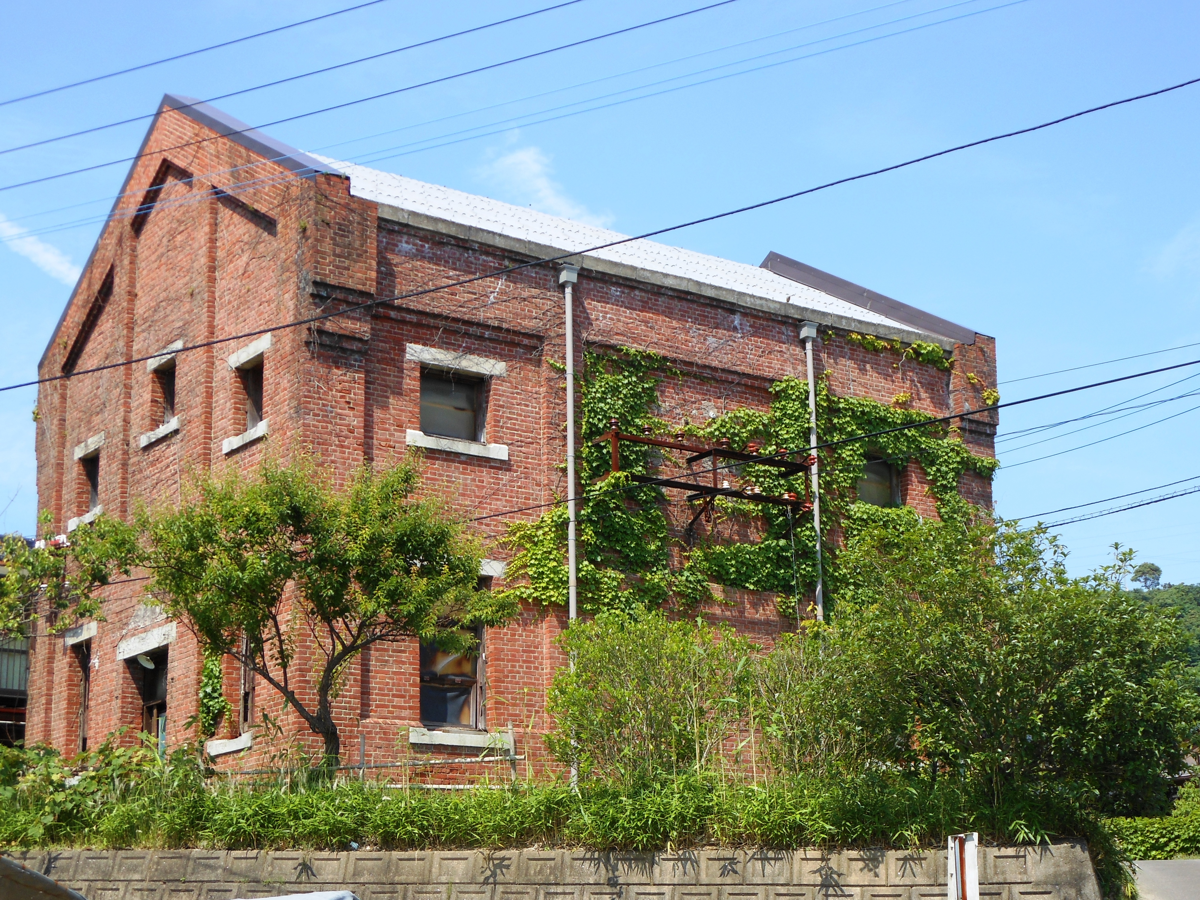 South and west side of Ōmachi Rengakan (Ōmachi Brick House), in Ōmachi town, Saga prefecture. It was built in 1927 as an electric substation of former Kishima Coal Mine.